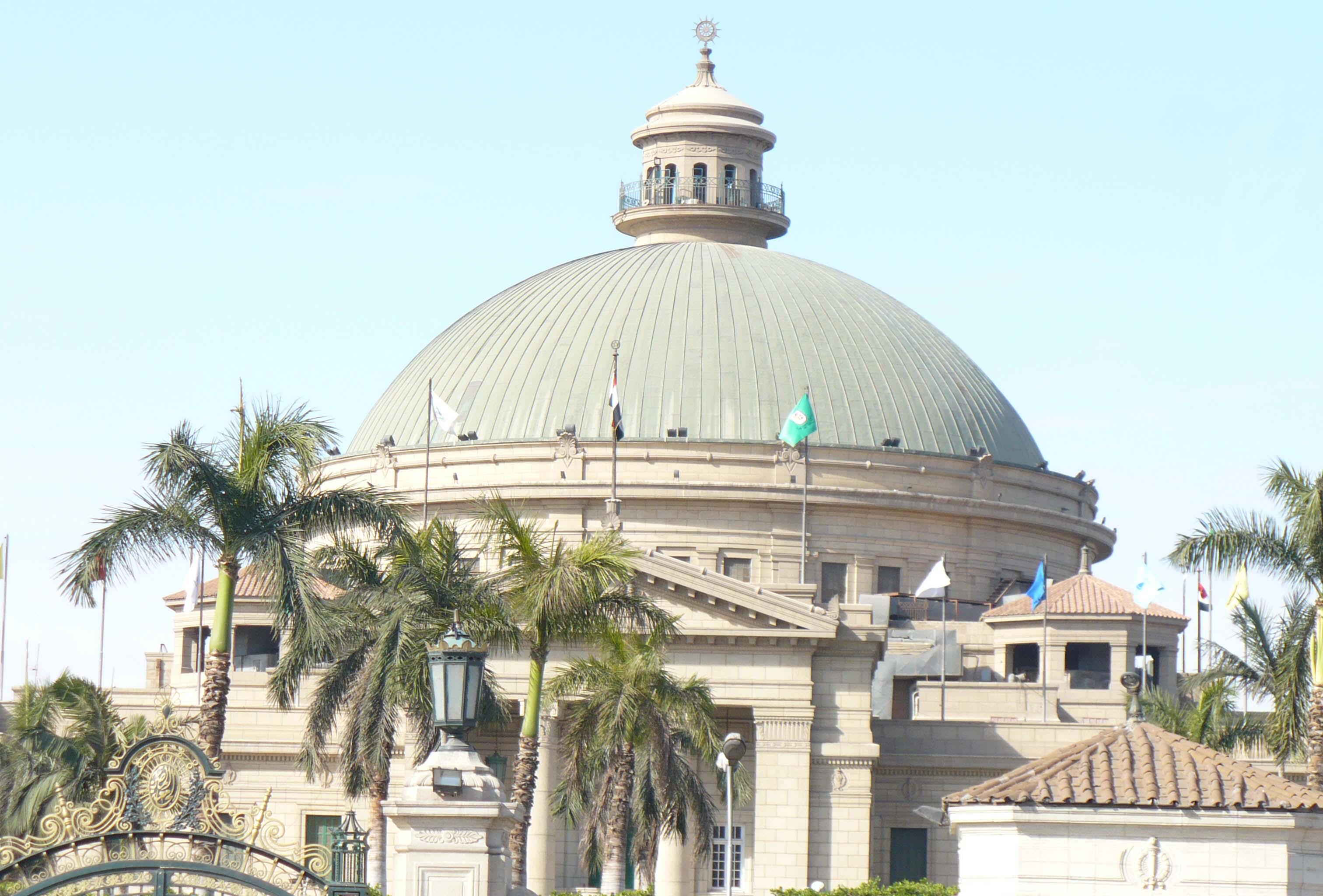 Cairo university